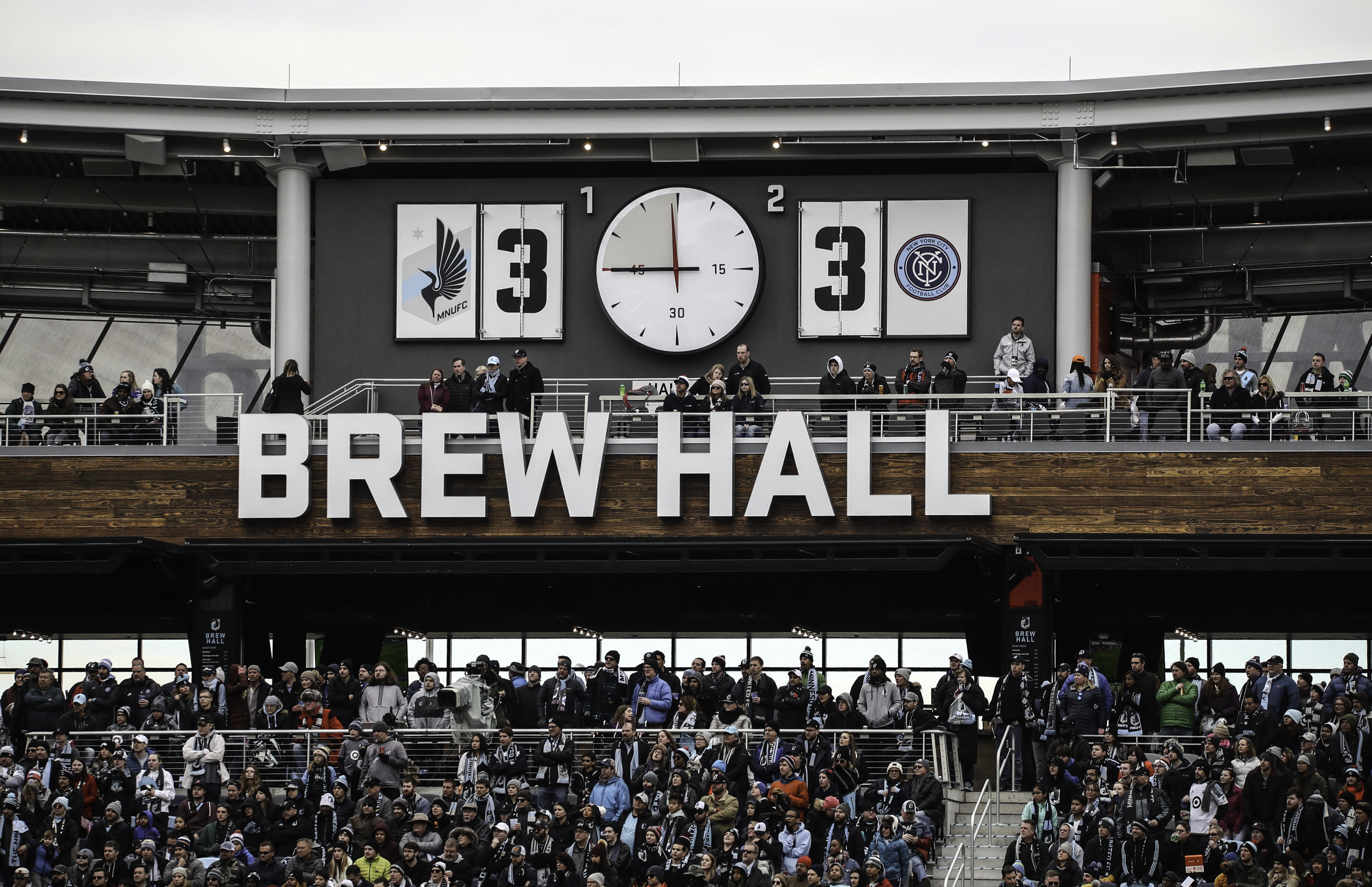 mnufcMinnesota United - MNUFC v NYCFC NEW YORK CITY FOOTBALL CLUB - ALLIANZ FIELD - St. PAUL MINNESOTA